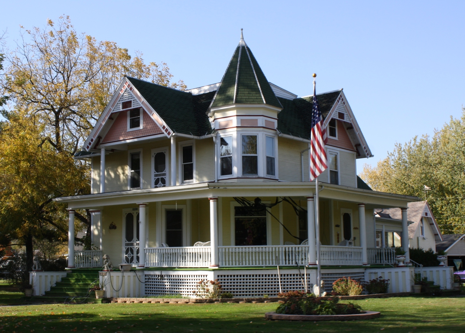 The Ralph Myhre House in the Ridge Avenue Historic District in Galesville, Wisconsin at the intersection of West Ridge and 5th. The district is listed on the National Register of Historic Places.